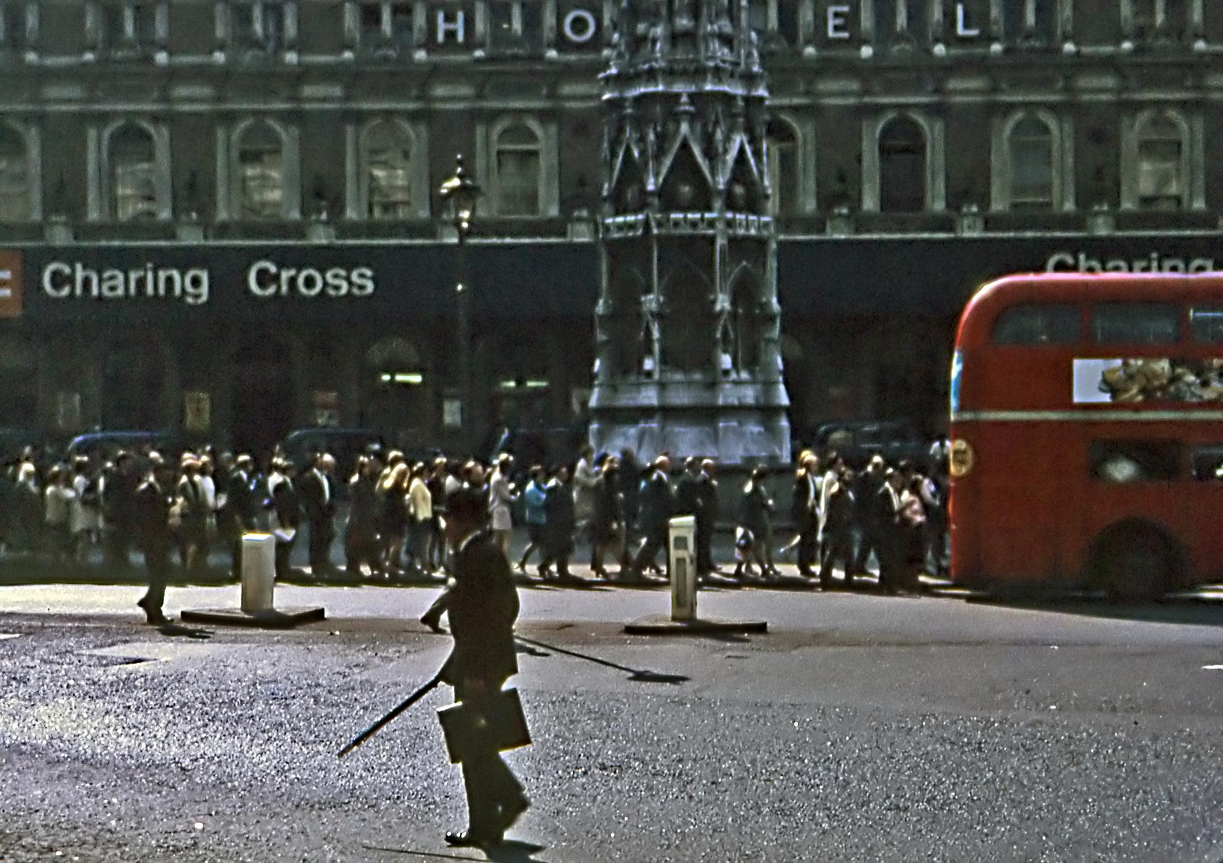 Charing Cross Station, London, 1971.